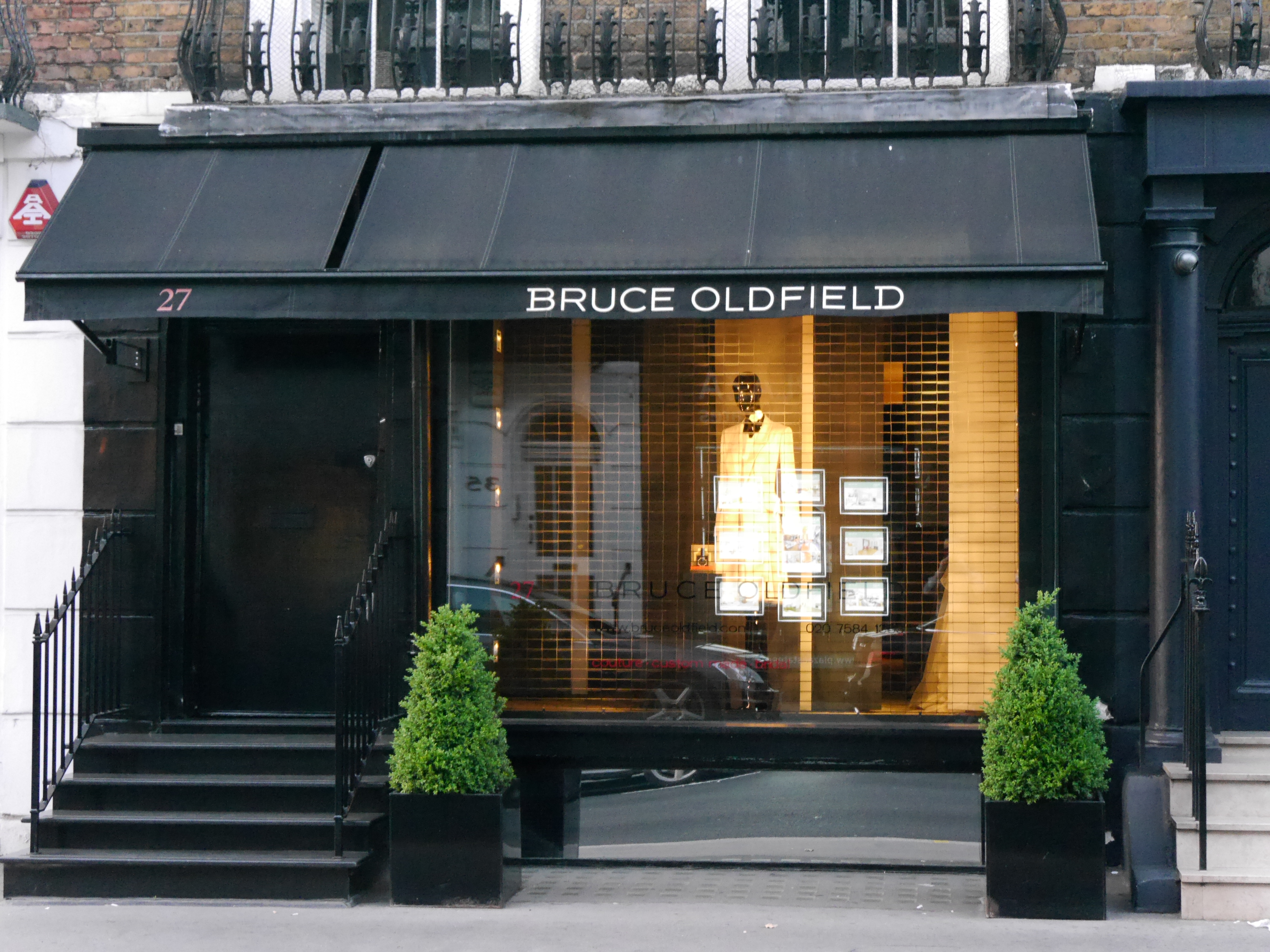 Beauchamp Place, London, June 2016